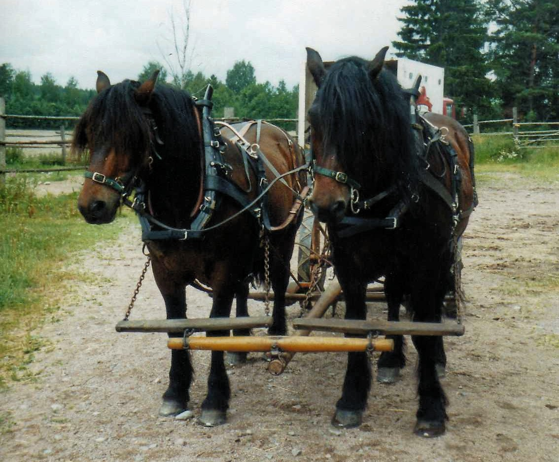 North Swedish horse geldings